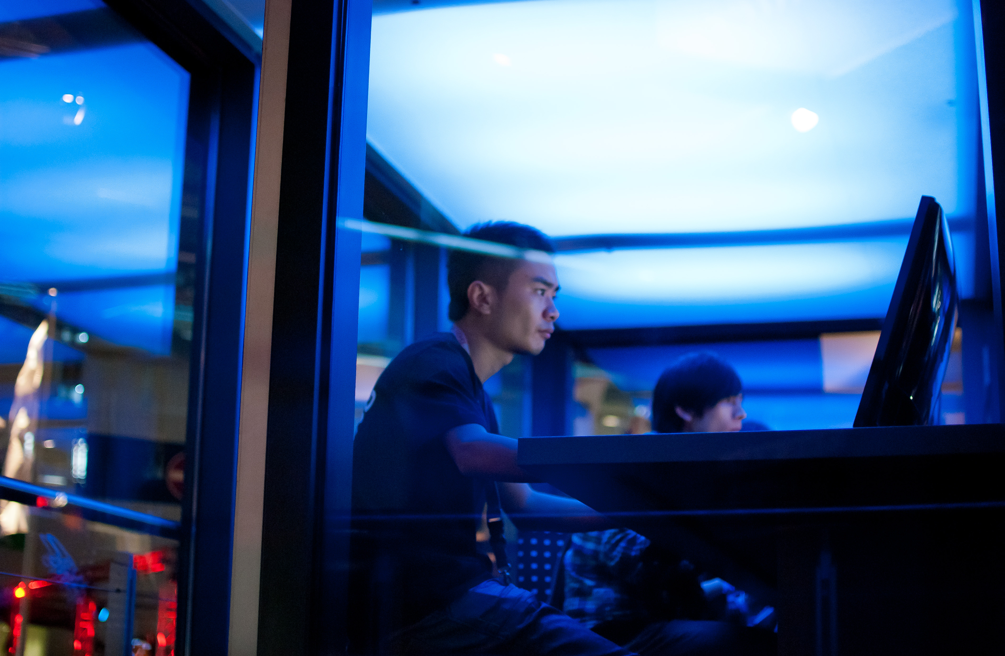 Ehome Dota 2 team at GamesCom 2011